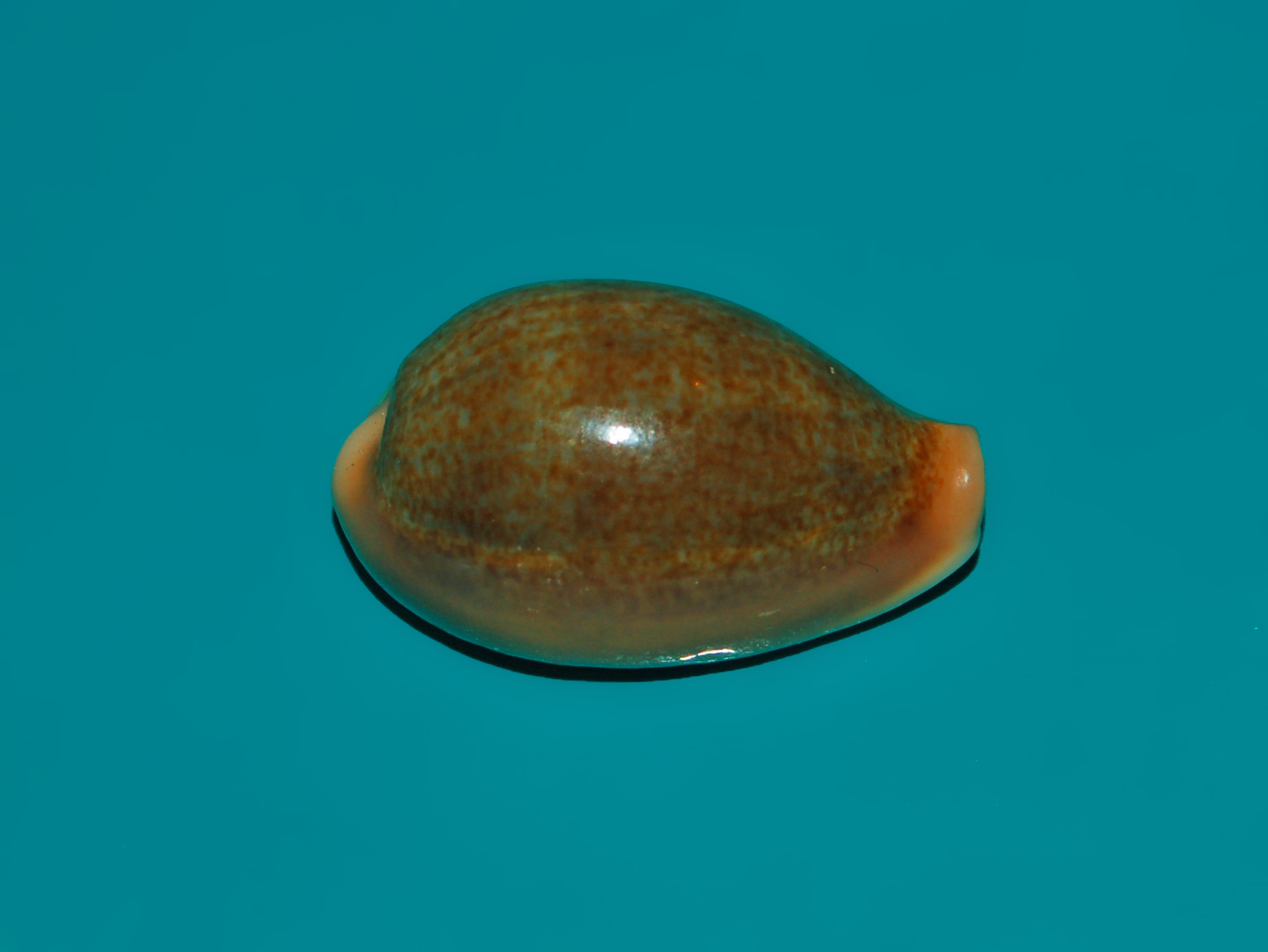 Erronea ovum - Solomon Islands